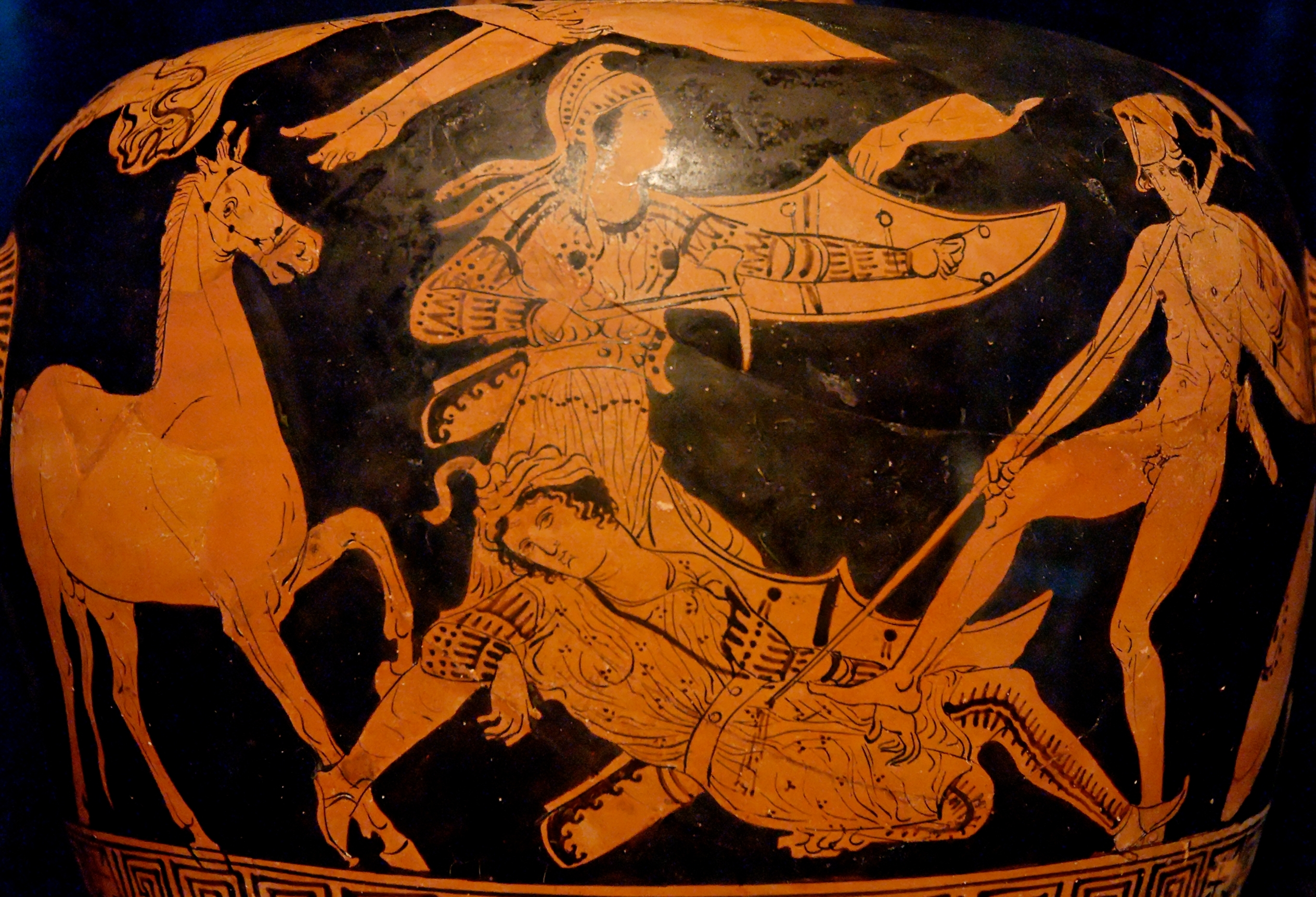 Patroclus (naked, on the right) kills Sarpedon (wearing Lycian clothes, on the left) with his spear, while Glaucus comes to the latter's help. Protolucana red-figure hydria by the Policoro Painter, ca. 400 BC. From the so-called tomb of the Policoro Painter in Heraclaea. Stored in the Museo Nazionale Archaeologico of Policoro.